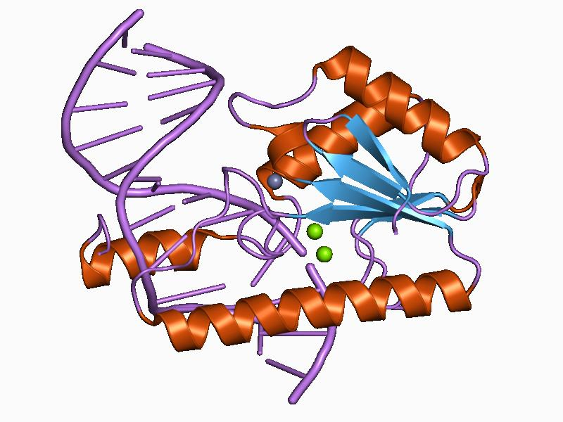 Cartoon representation of the molecular structure of protein registered with 1cw0 code.